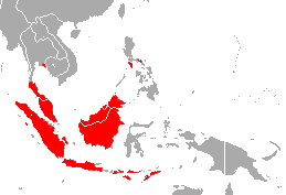 Bicolored Roundleaf Bat (Hipposideros bicolor) range